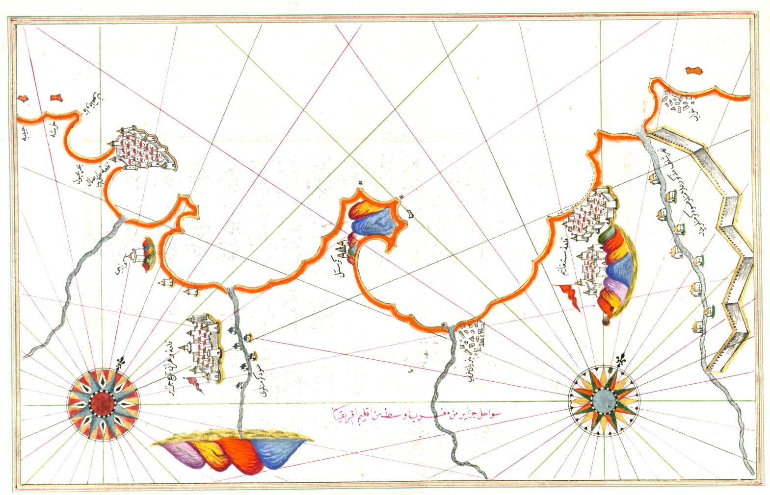 This folio from Walters manuscript W.658 contains a map of the Algerian coast around Oran (Wahran) and Mostaganem (Mustaghanim).